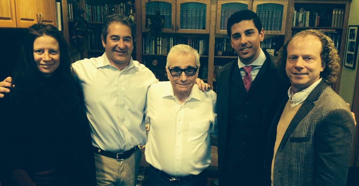 scorsese